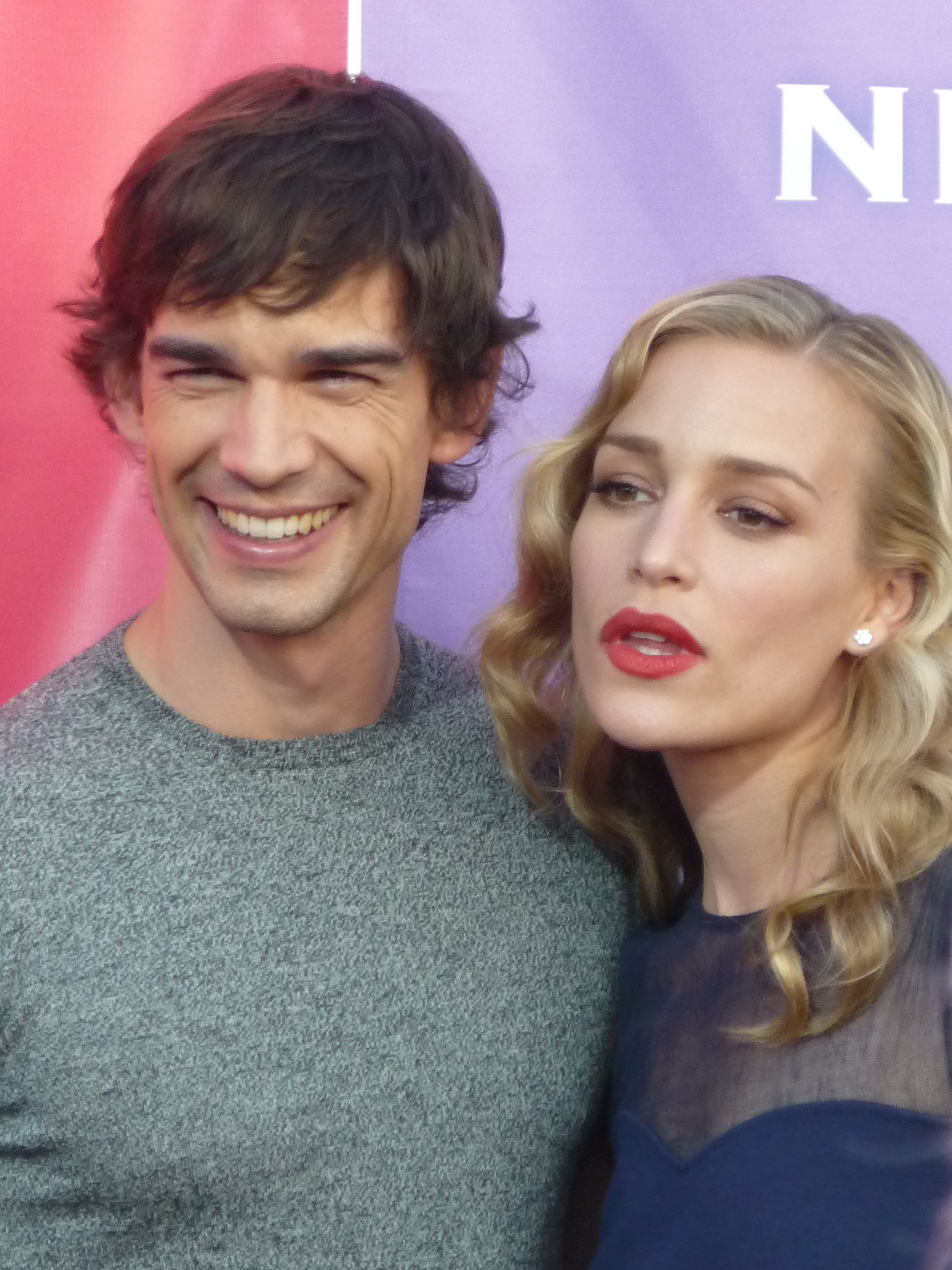 TCA 2010